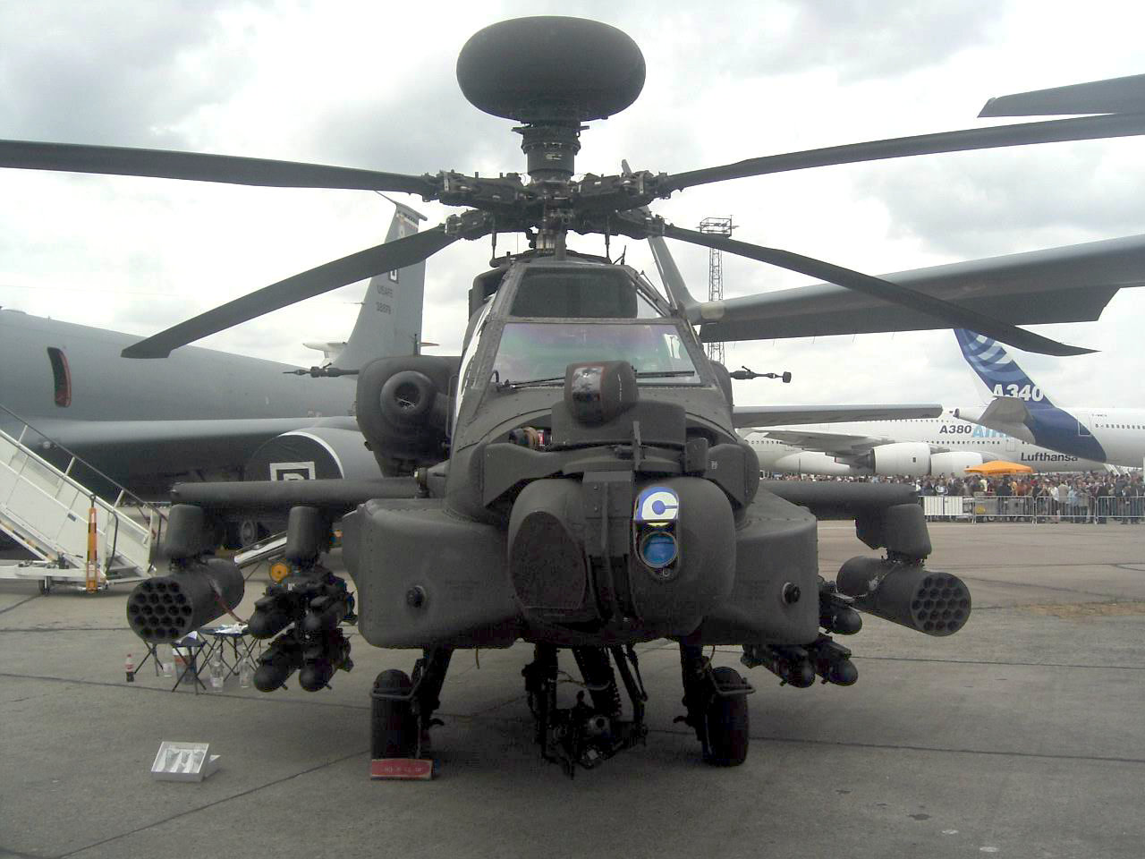 Apache Longbow Frontansicht